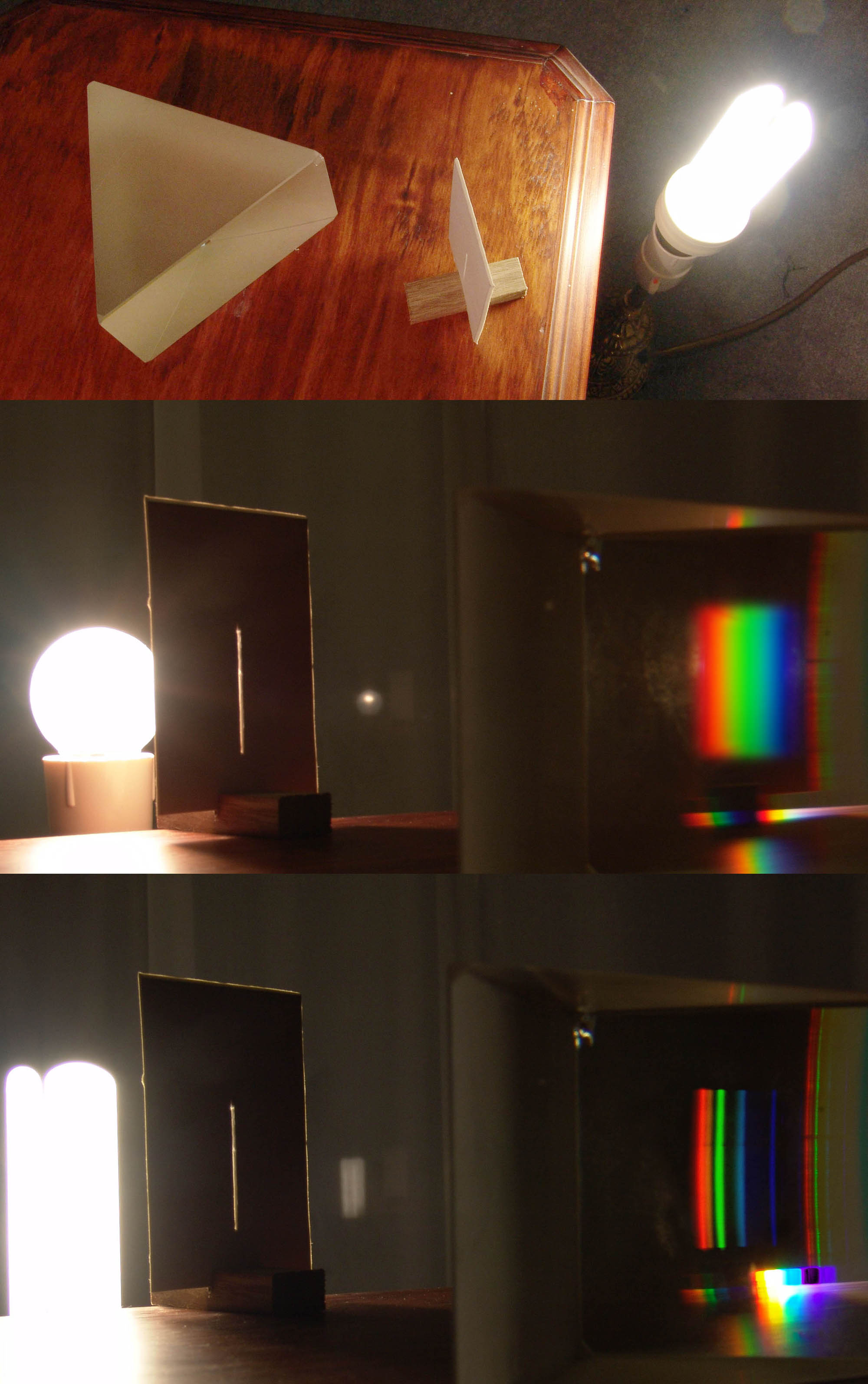 A very basic spectroscope made from a slit in cardboard and a prism. Even a simple instrument like this reveals a clear difference in the visible spectrum of an incandescent lamp and an arc-discharge–based low-energy-consumption lamp.